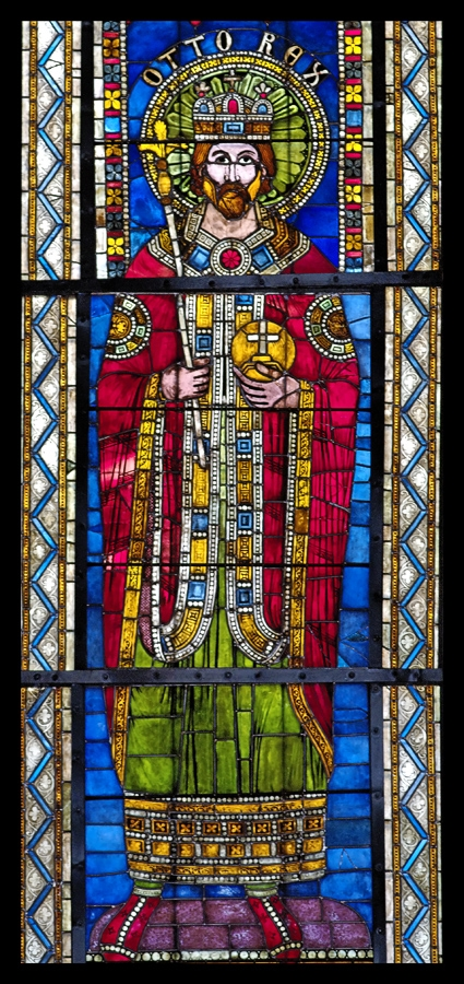 Romanesque stained glass depiction of Otto I, Holy Roman Emperor; Cathedral of Our Lady of Strasbourg, France